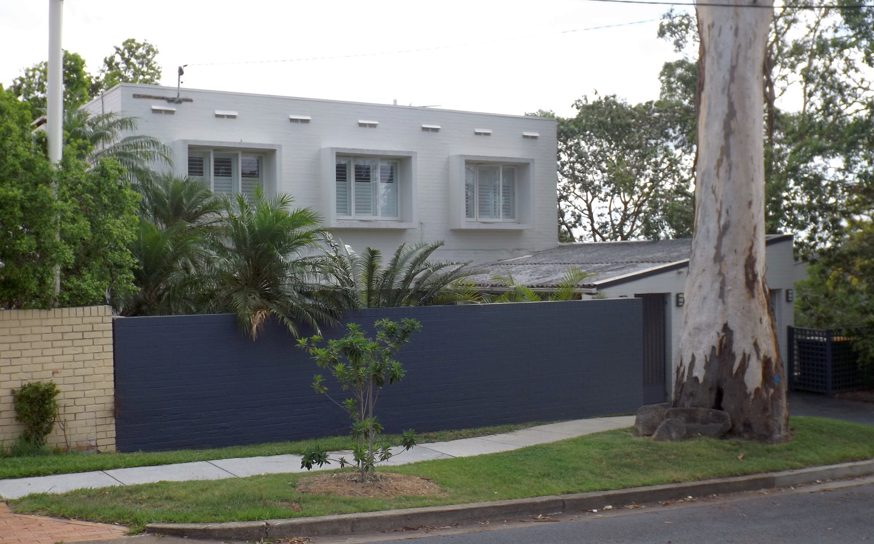 Photo of Langer House at St Lucia, Brisbane, Queensland, Australia.